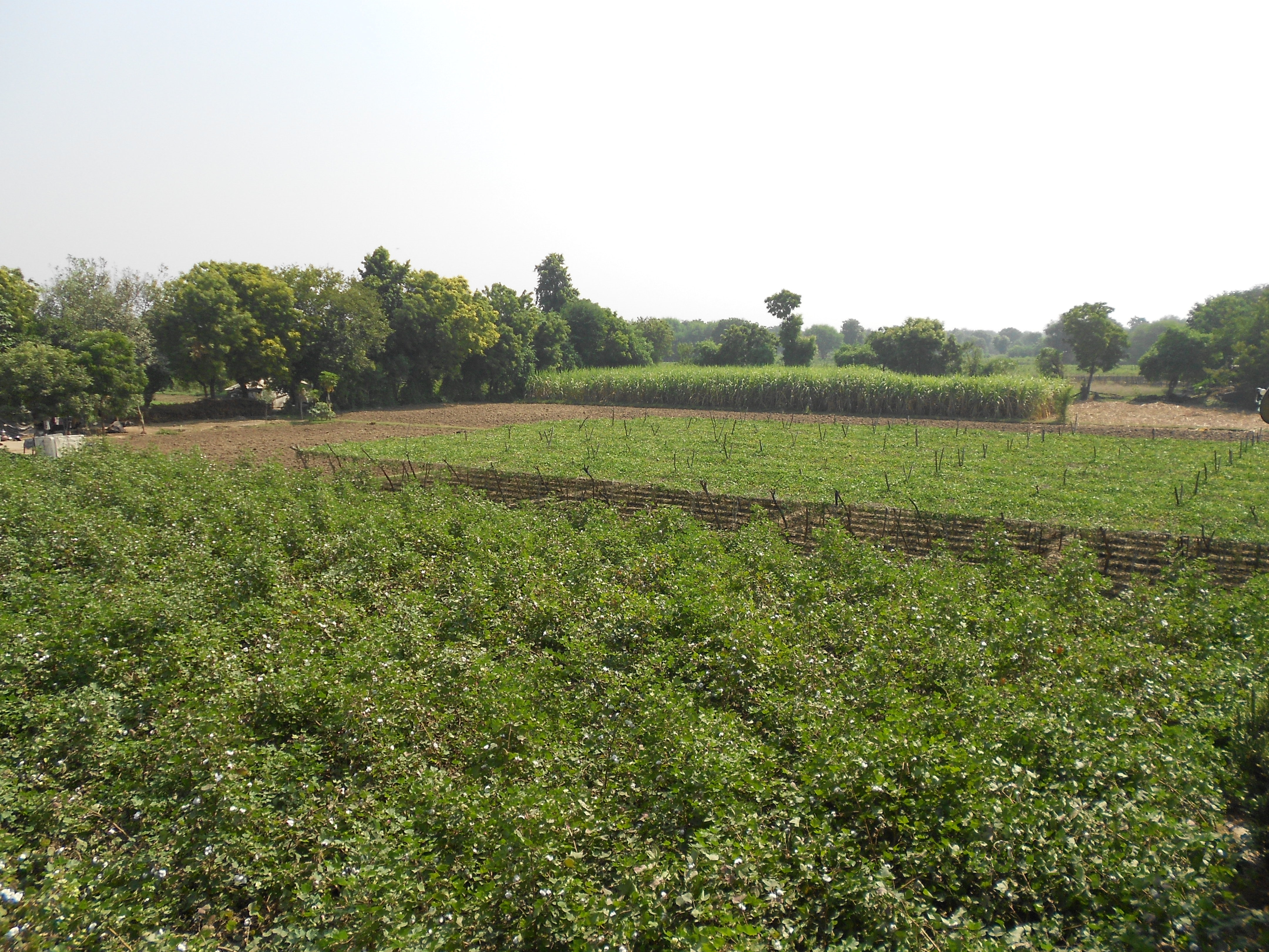 Badarkha village Farm